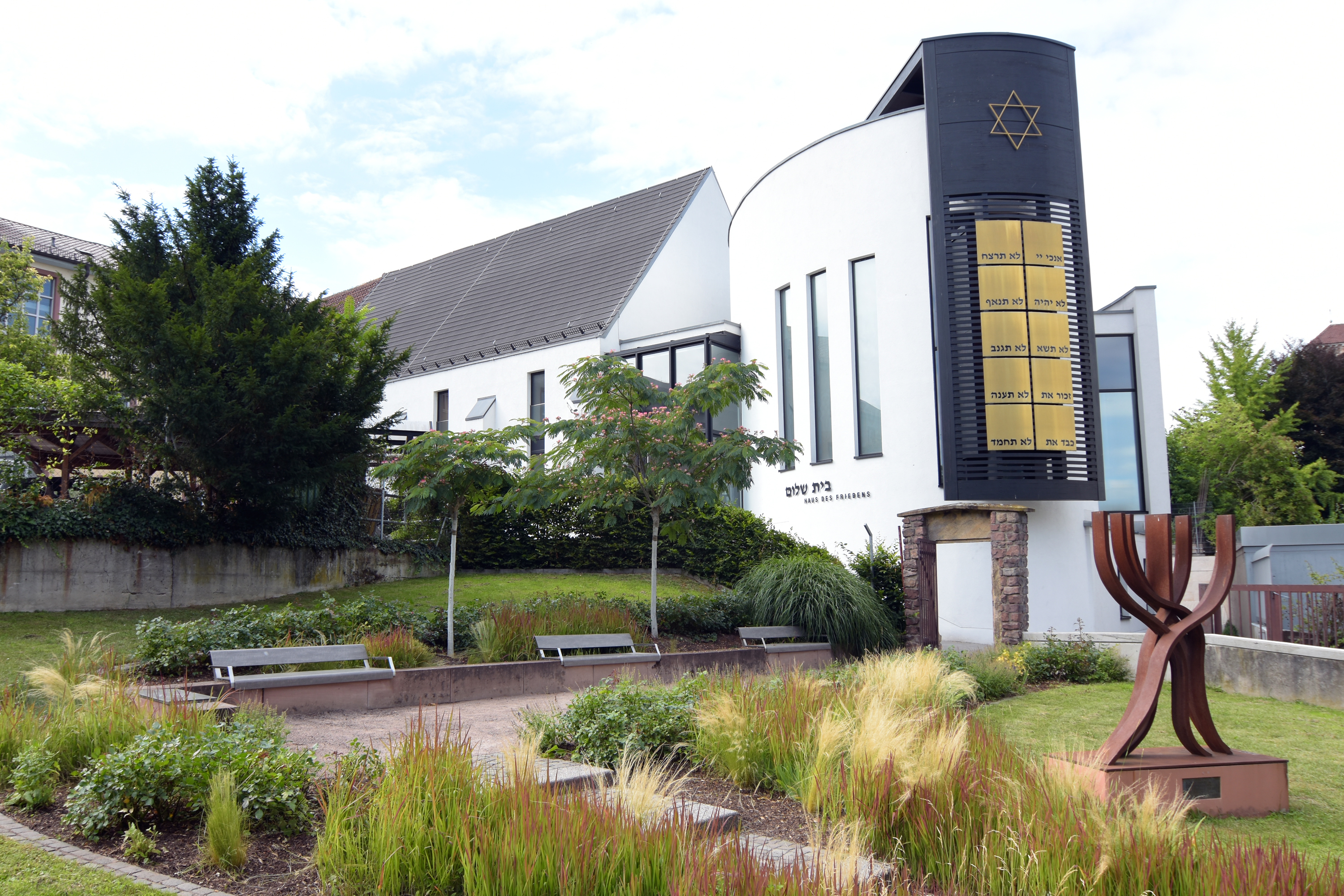 Speyer, Synagoge Beith-Schalom